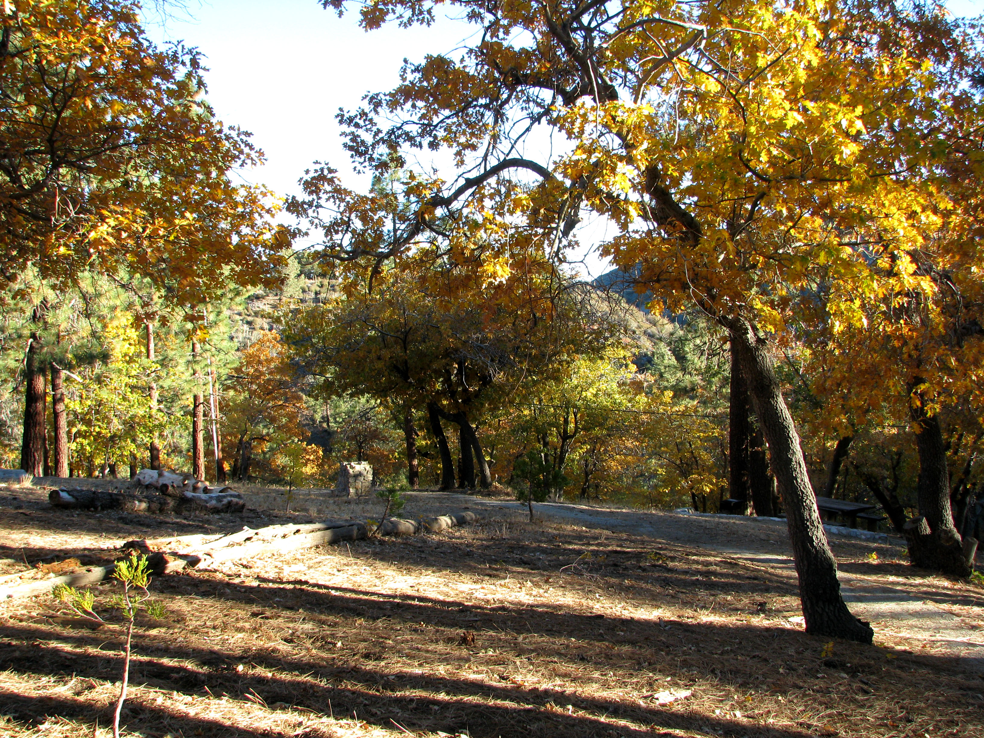 California black oaks (Quercus kelloggii) in Autumn, in the San Gabriel Mountains, Southern California.